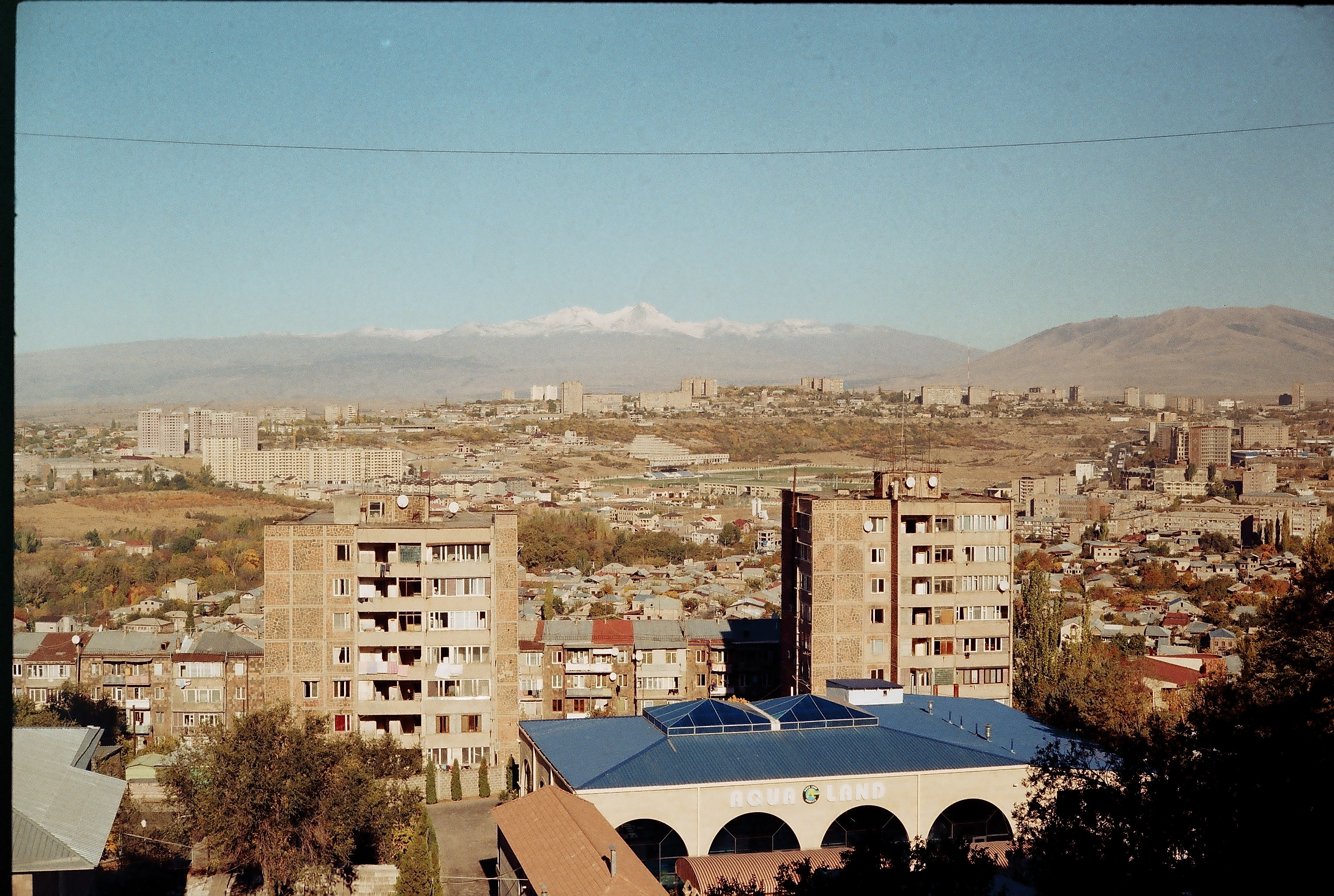 Armenia1